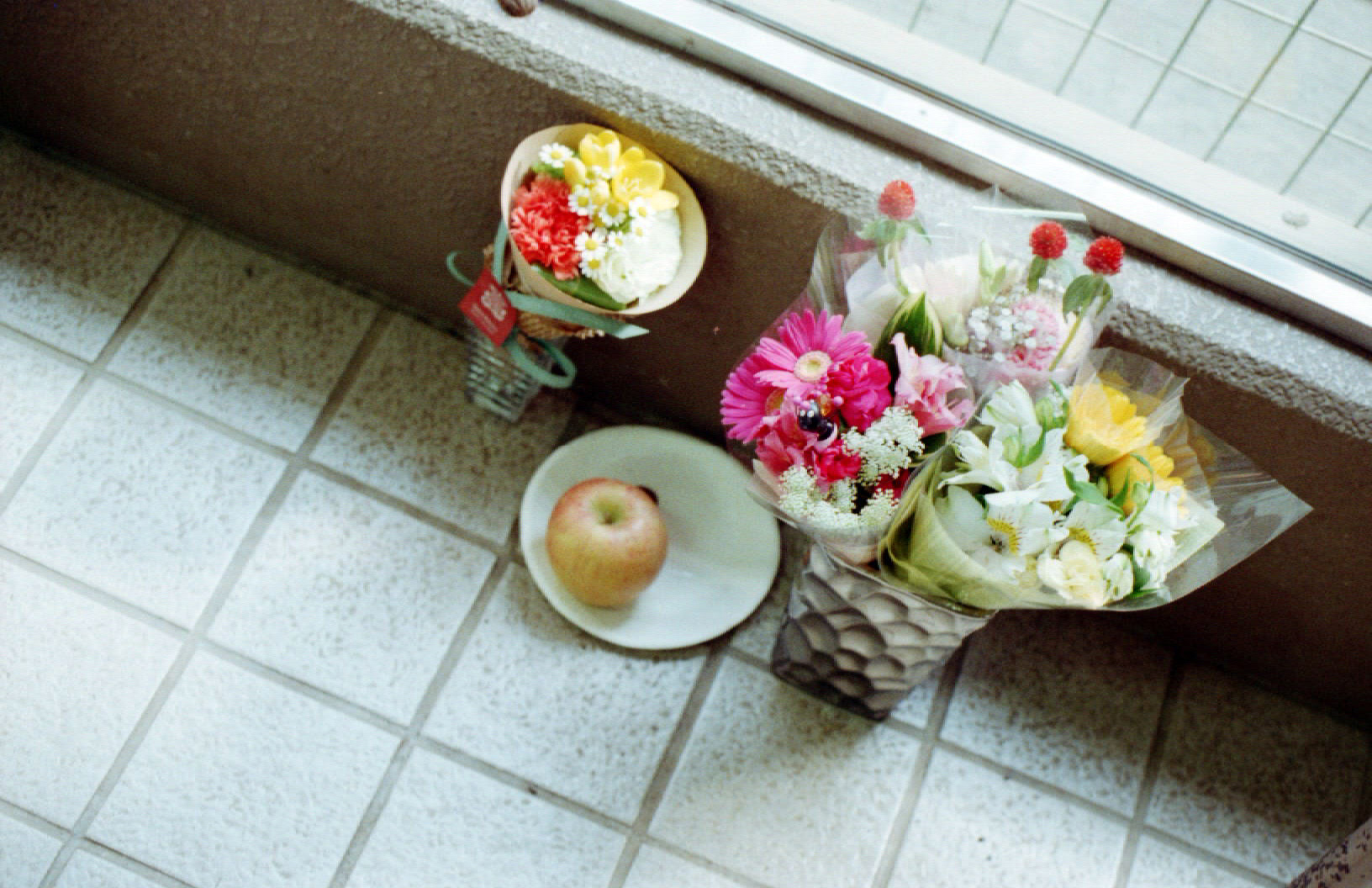 Taken with a Canon FT + Lens : Canon FL 50mm F1.4 + Film : Ferrania Solaris 100 . + Scan : Nakabayashi PRN-100 .